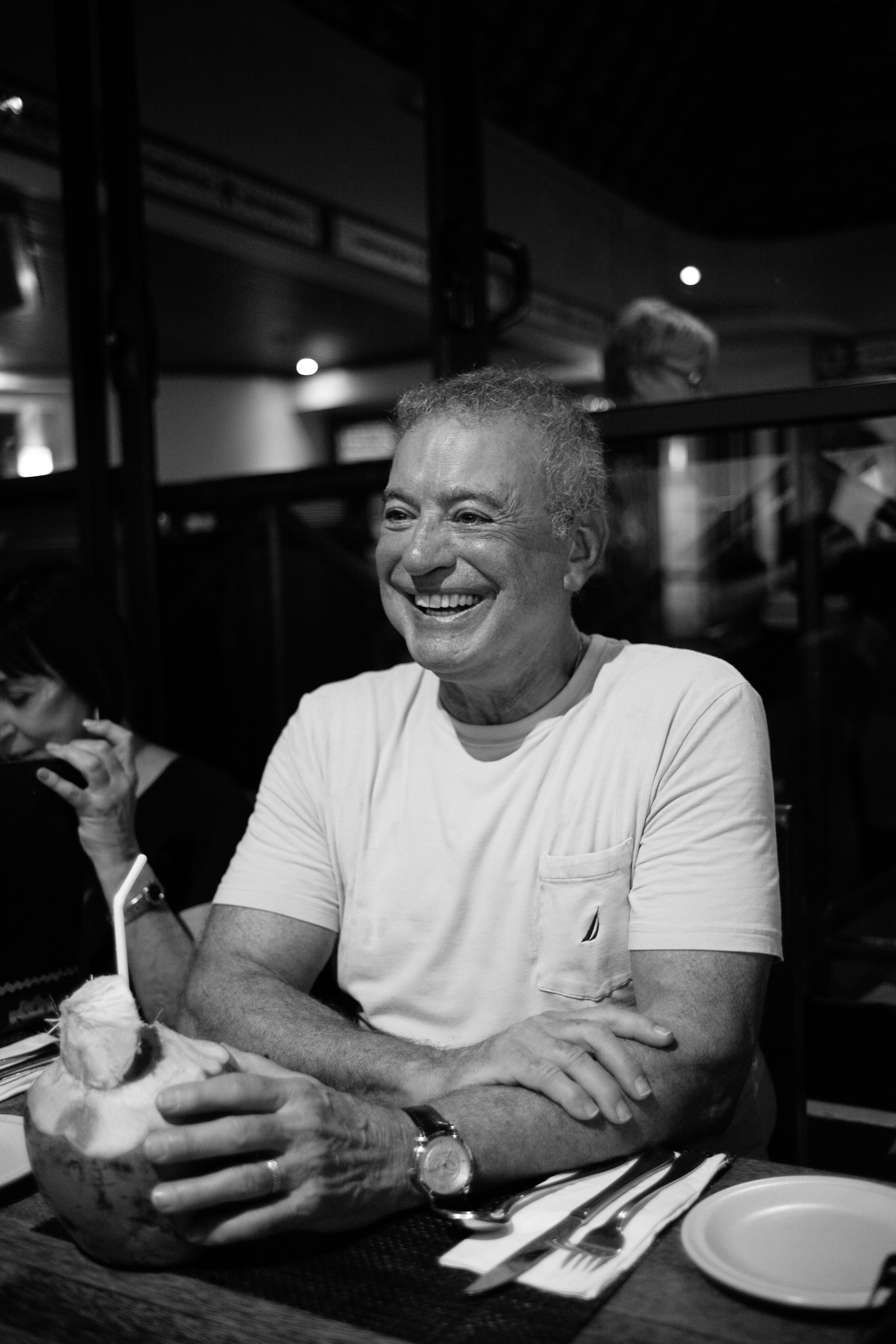 Photo of the entrepreneur Alan Weiss